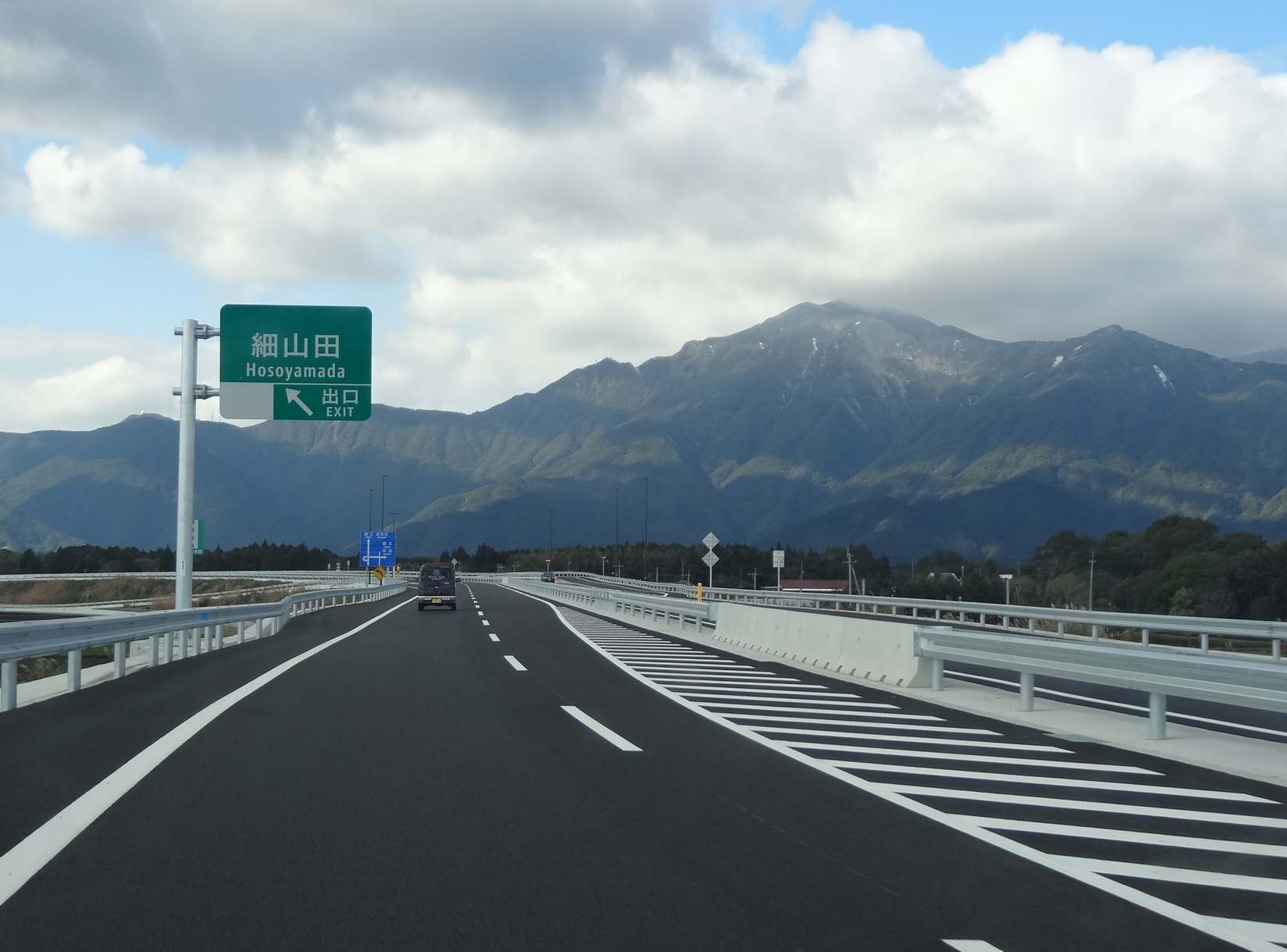 Osumi Jukan Road at Hosoyamada, Kushira, Kanoya City, Kagoshima Prefecture, Japan.